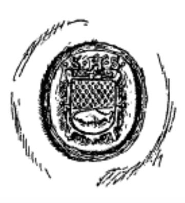 Drawing depicting the seal (coat of arms) of Sigfrid Henriksson Sarfve